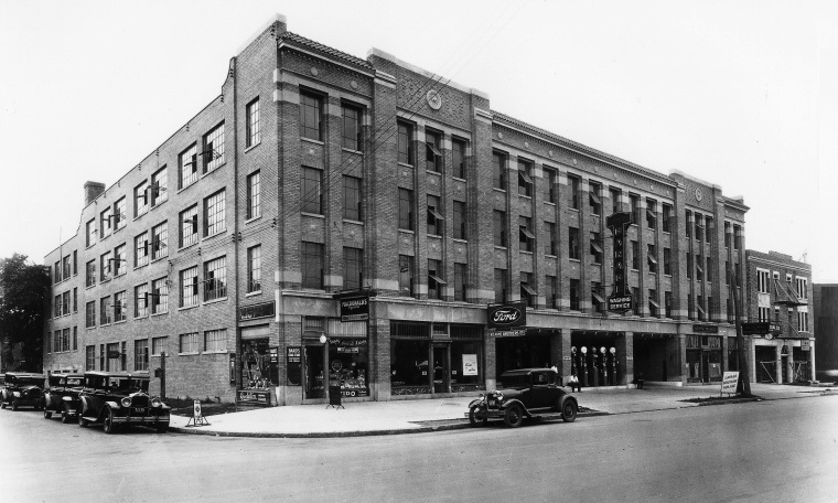 Photograph, Commercial building on Victoria Avenue, Westmount, QC, 1931, Silver salts on paper - Gelatin silver process - 20.3 x 25.4 cm